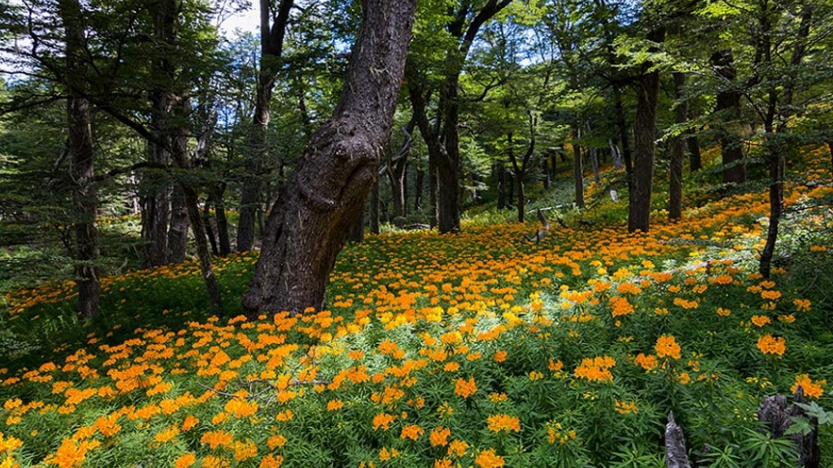 Part of the forest in mountains